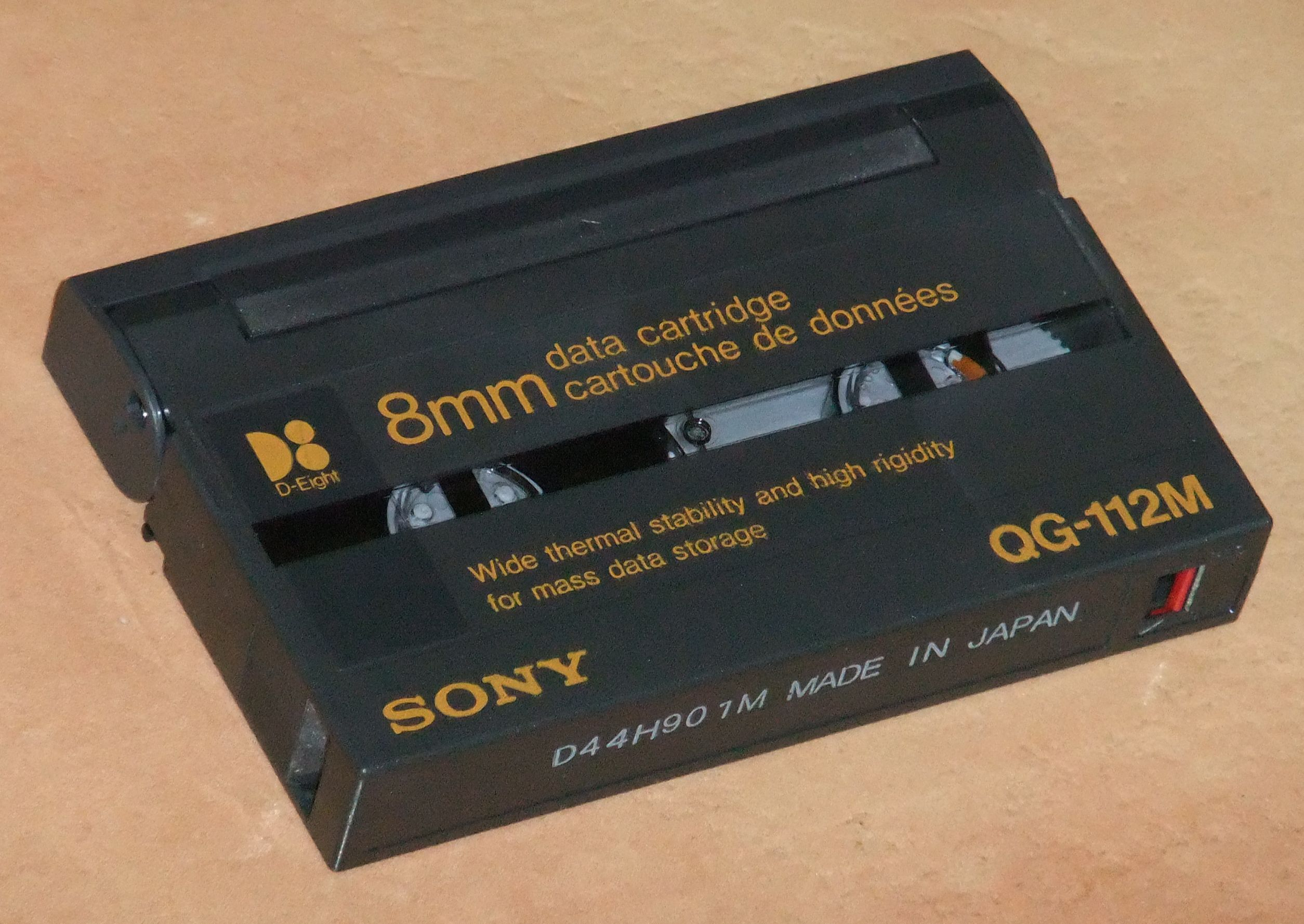 Photograph of a Sony-brand Data8 data cartridge, to improve the Data 8 article which currently shows an 8mm video tape, rather than a data tape.